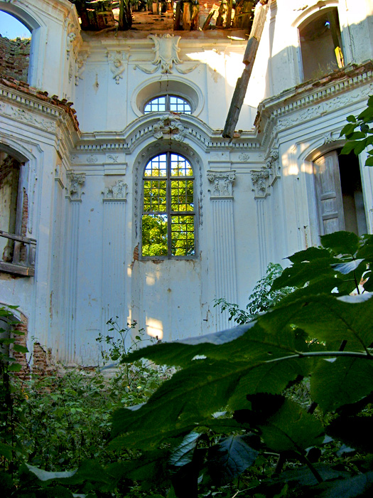 Беларуская (тарашкевіца): Троіцкі касьцёл. в. Воўчын This is a photo of Belarusian heritage monument. Reference number: 111Г000334 ( WLM)